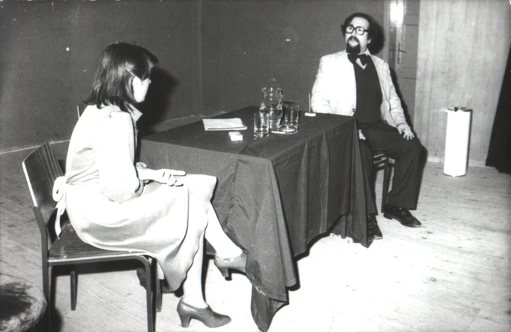 Mladen Dražetin acting in a theatre play of the Correspondence Theatre and Drama Art Scene.